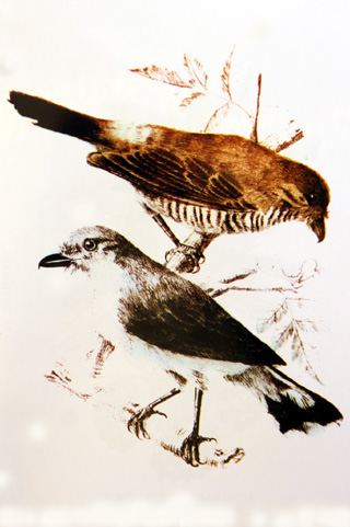 Reunion Cuckoo-shrike Coracina newtoni